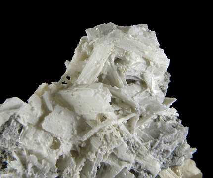 Latiumite Locality: Cava di Campagnano, Campagnano di Roma, Sacrofano Caldera, Rome Province, Latium, Italy (Locality at ) Size: 4.6 x 3.8 x 2.8 cm. This piece is a very classic specimen of this rare phyllosilicate. It features cream-white prismatic crystals of Latiumite measuring up to 5 mm on matrix. There are no localities for Latiumite outside of Italy, and it is only appropriate that this piece was named after the district in which it was first found. A great example of this classic material. Ex. Richard Kosnar Collection.